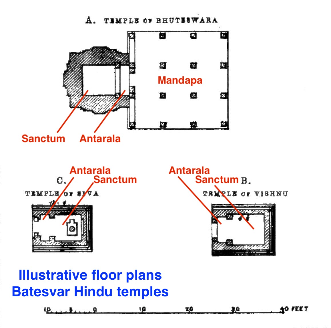 Batesvar temples site, also called Bateshwara temples, are a collection of 200 sandstone temples and their ruins about 35 kilometer north of Gwalior. The temples were destroyed after the 13th century. Some of them have been restored in the 20th and 21st centuries from their chaotic ruins. The temples are predominantly square plan based, and those that were standing in the 19th century exhibit the North Indian Nagara style architecture. Most of them are small and simple temples, exemplifying the essential elements of Hindu temple architecture and innovation possible within the basic plan.